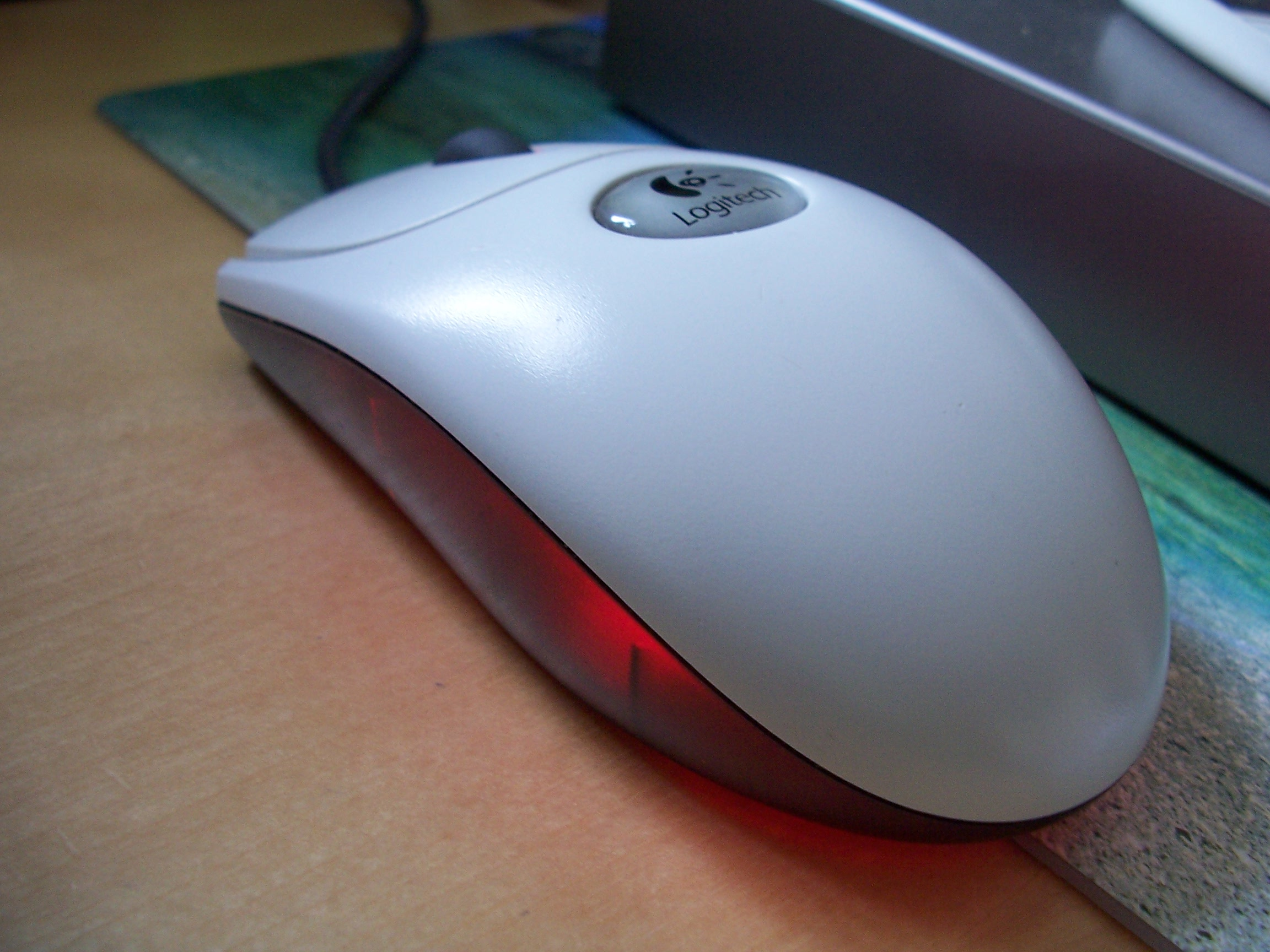 Self made picture. Picture of a Logitech Computermouse.